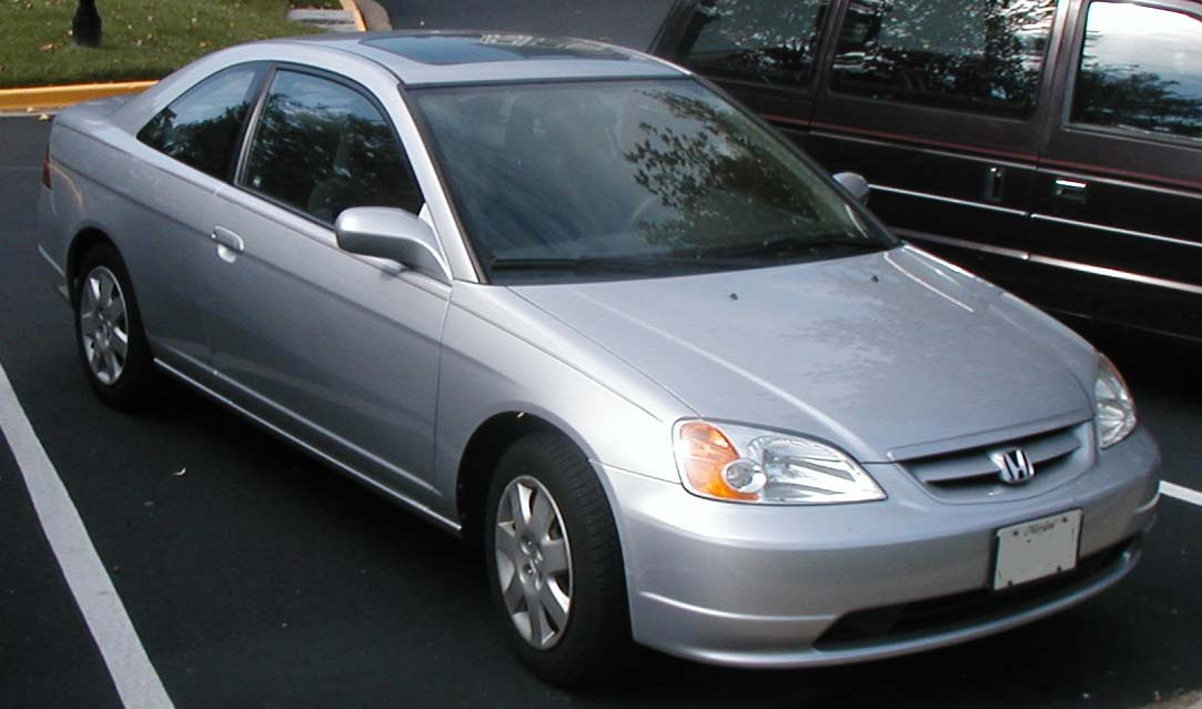 2003 Honda Civic coupe photographed in USA.